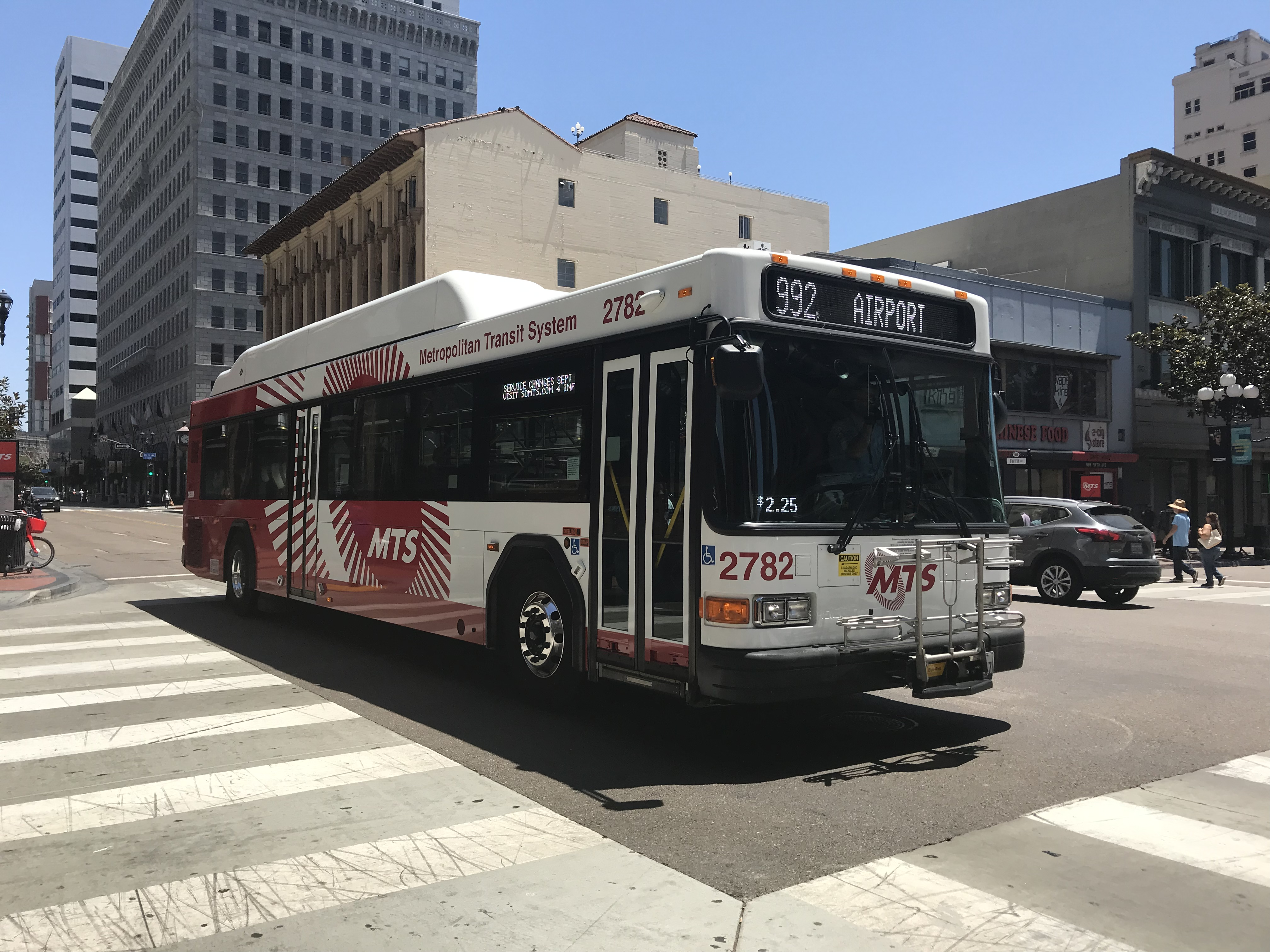 SDMTS #2782 2018 Gillig Low Floor at the Broadway/Fifth St. intersection. San Diego, California.